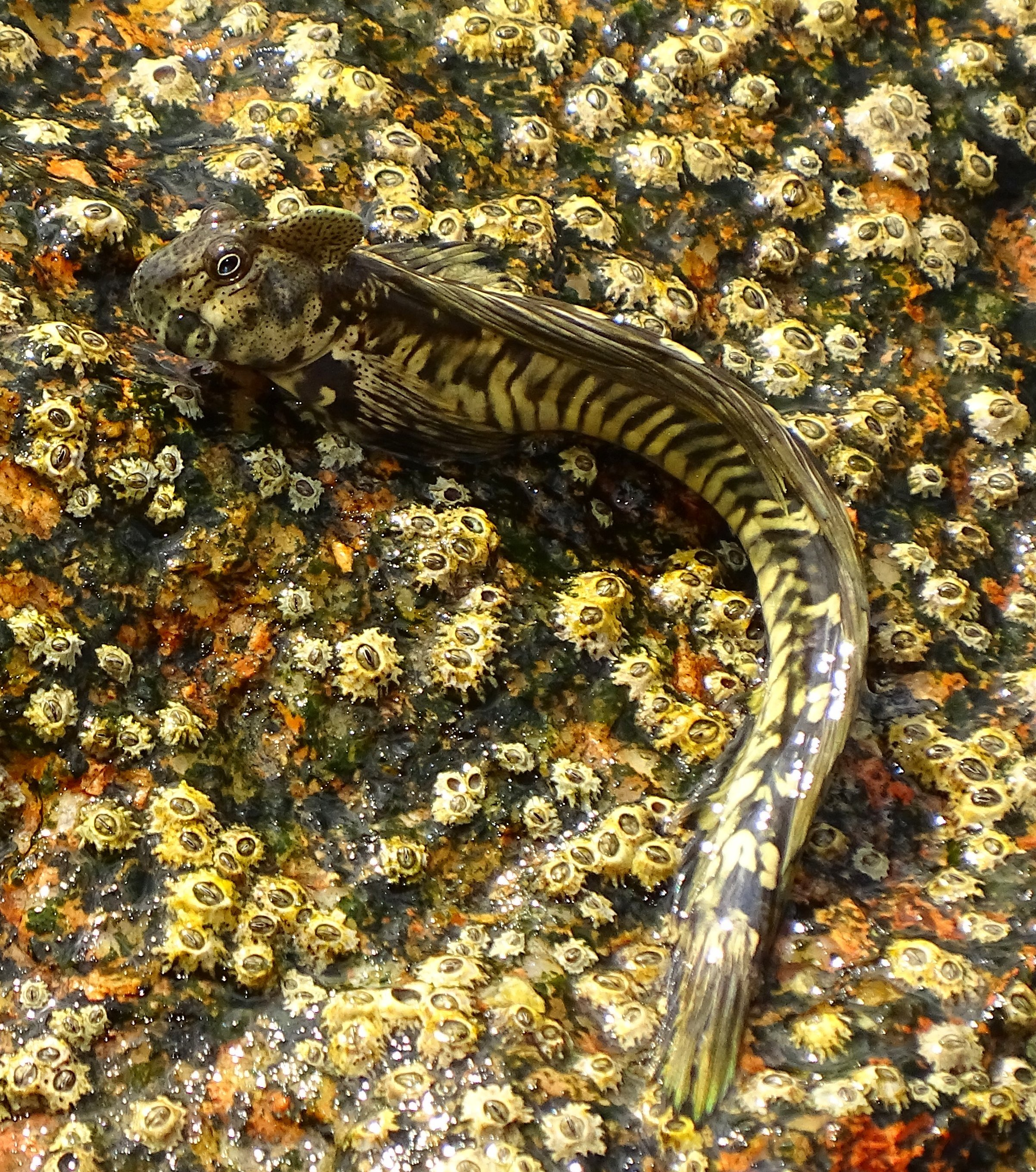 A mudskipper living on rocks at Anse Takamaka beach on Praslin, Seychelles.